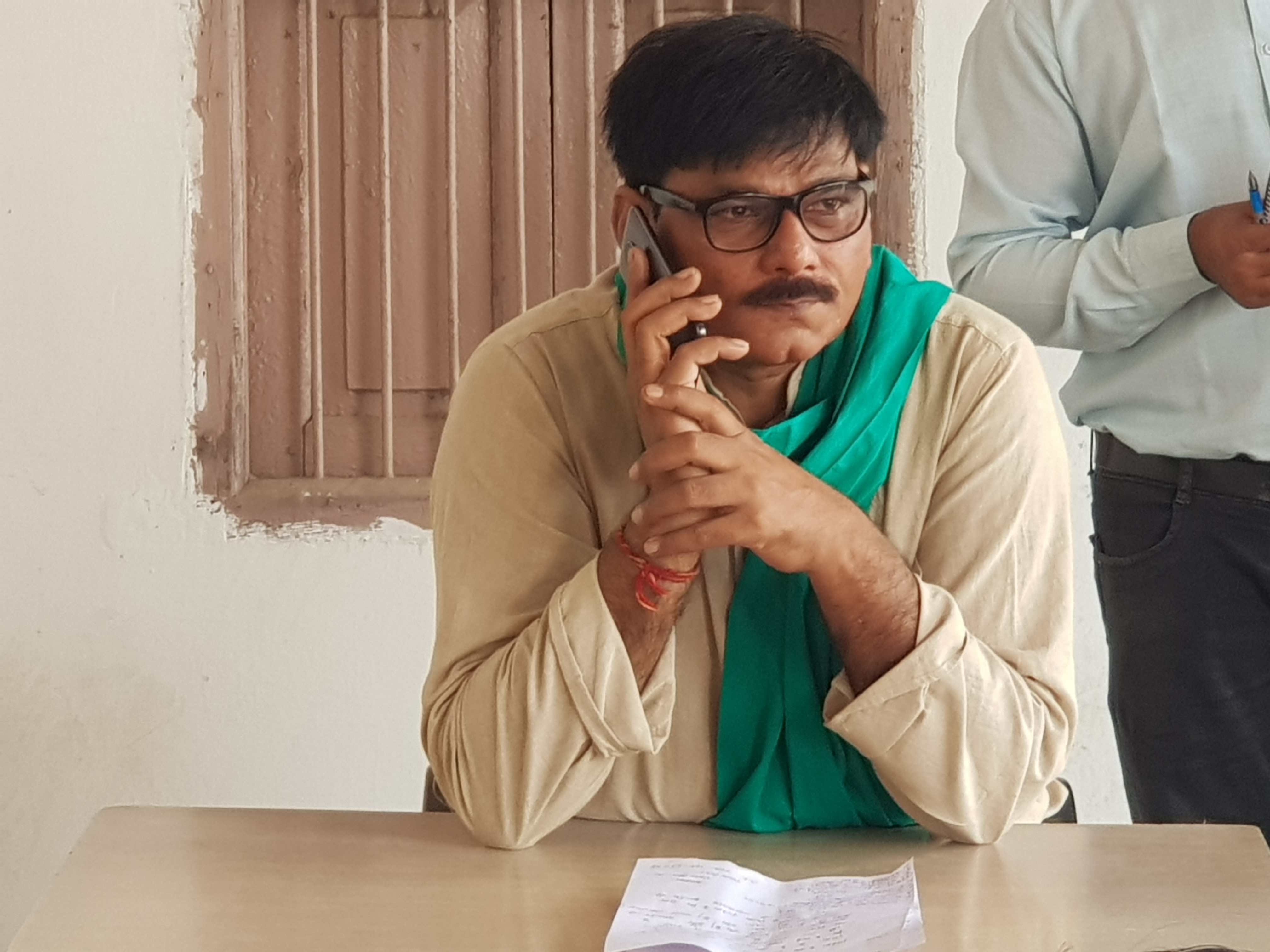 Dhirendra Singh working in his office.